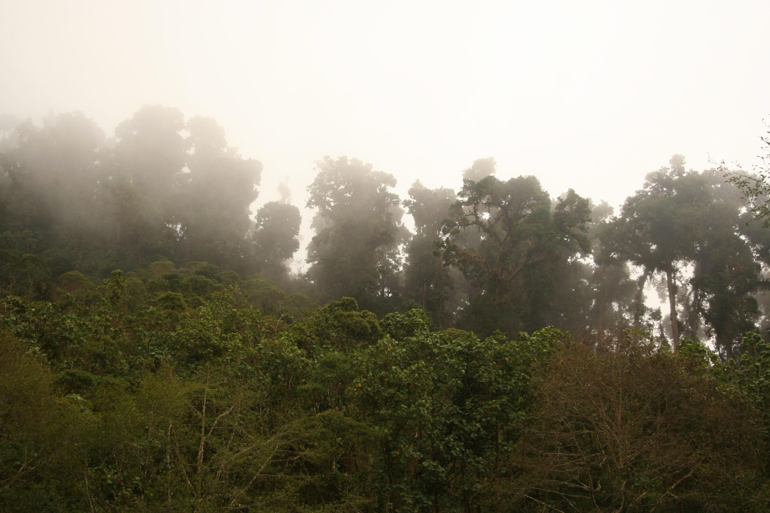 La Amistad International Park, in Chiriquí Province, Panama.